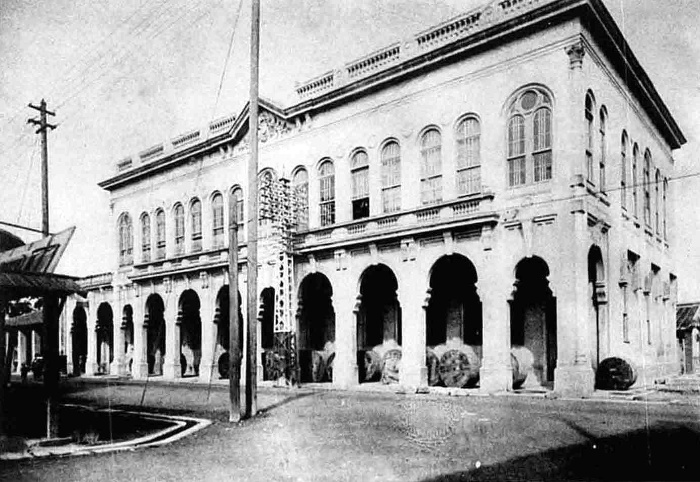 Telephone Operator Room, Taihoku, Formosa.